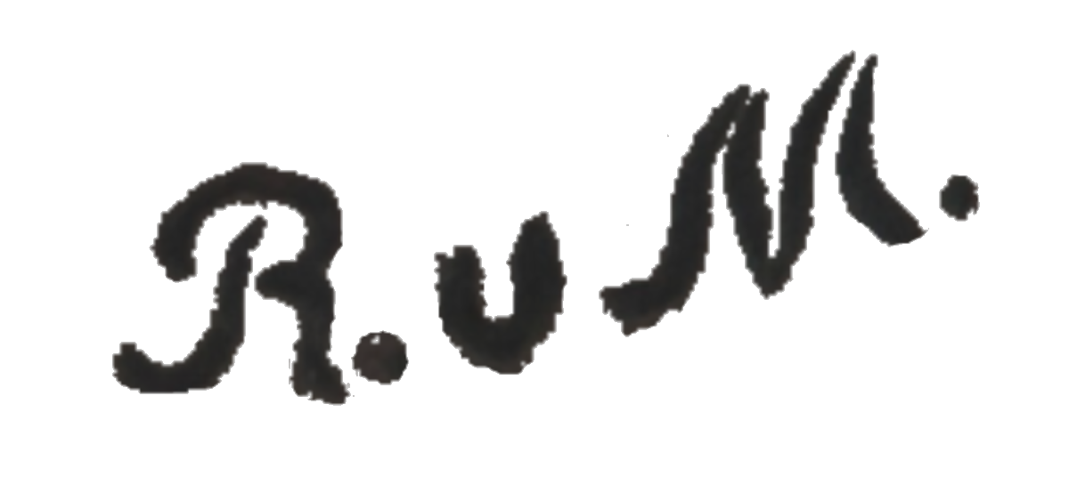 foundry stamp Rosenthal & Maeder